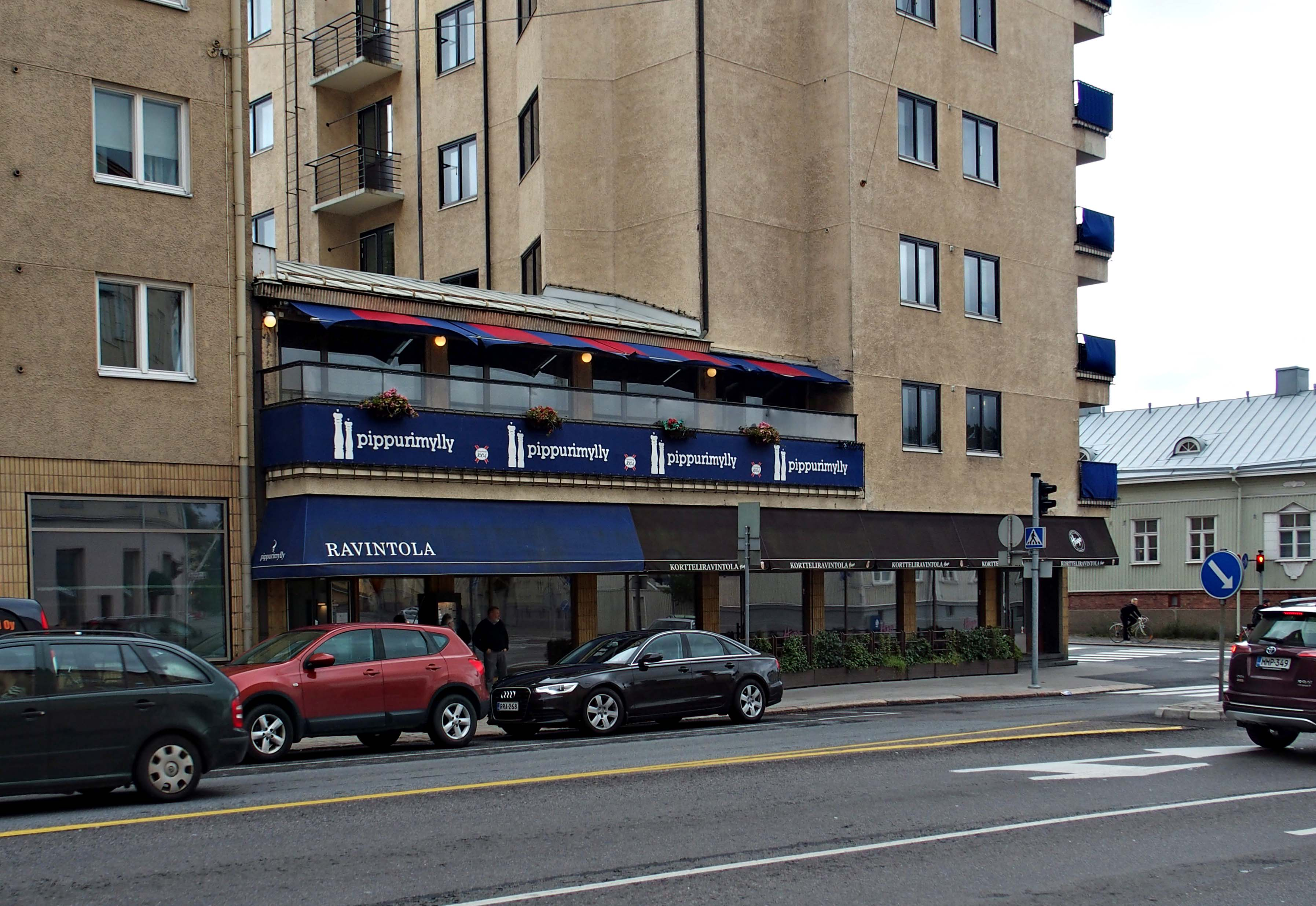 Restaurant Pippurimylly, operating since 1974 at Stålarminkatu 2, Martti, Turku, Finland.